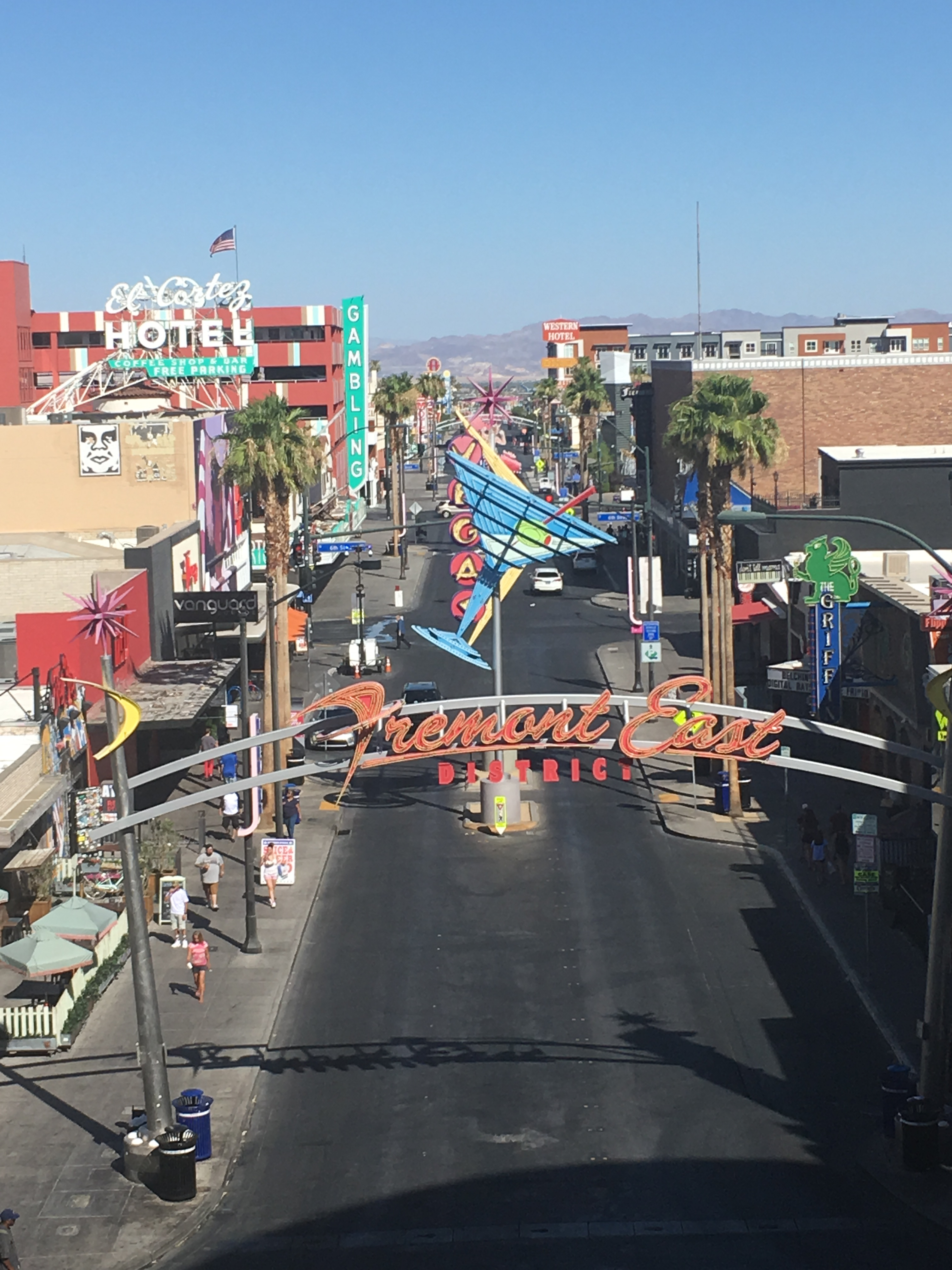 View of the Fremont East entertainment district on Fremont Street in Downtown Las Vegas